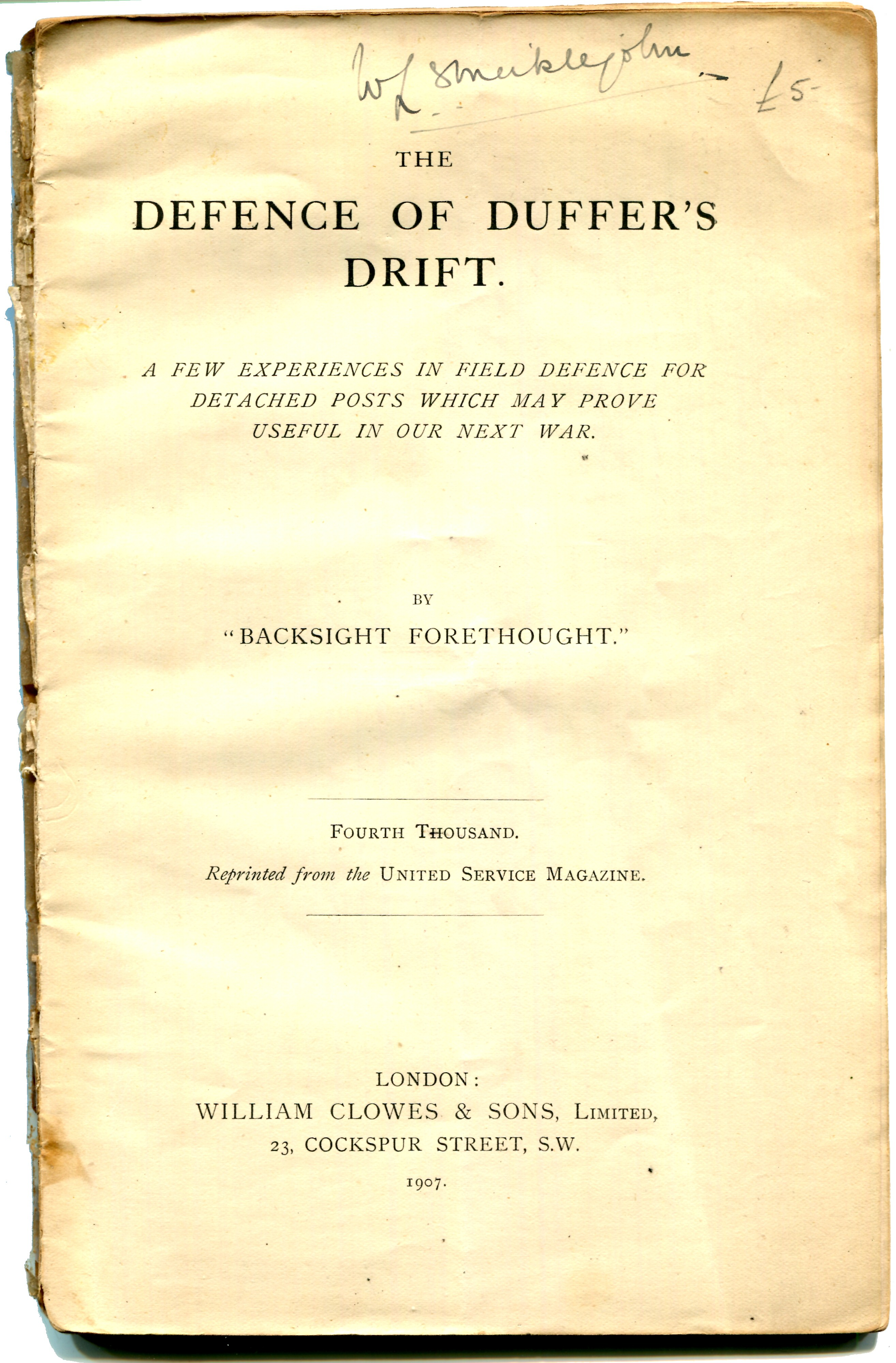 Title Page of Defence of Duffer's Drift by "Backsight Forethought", 1907 printing